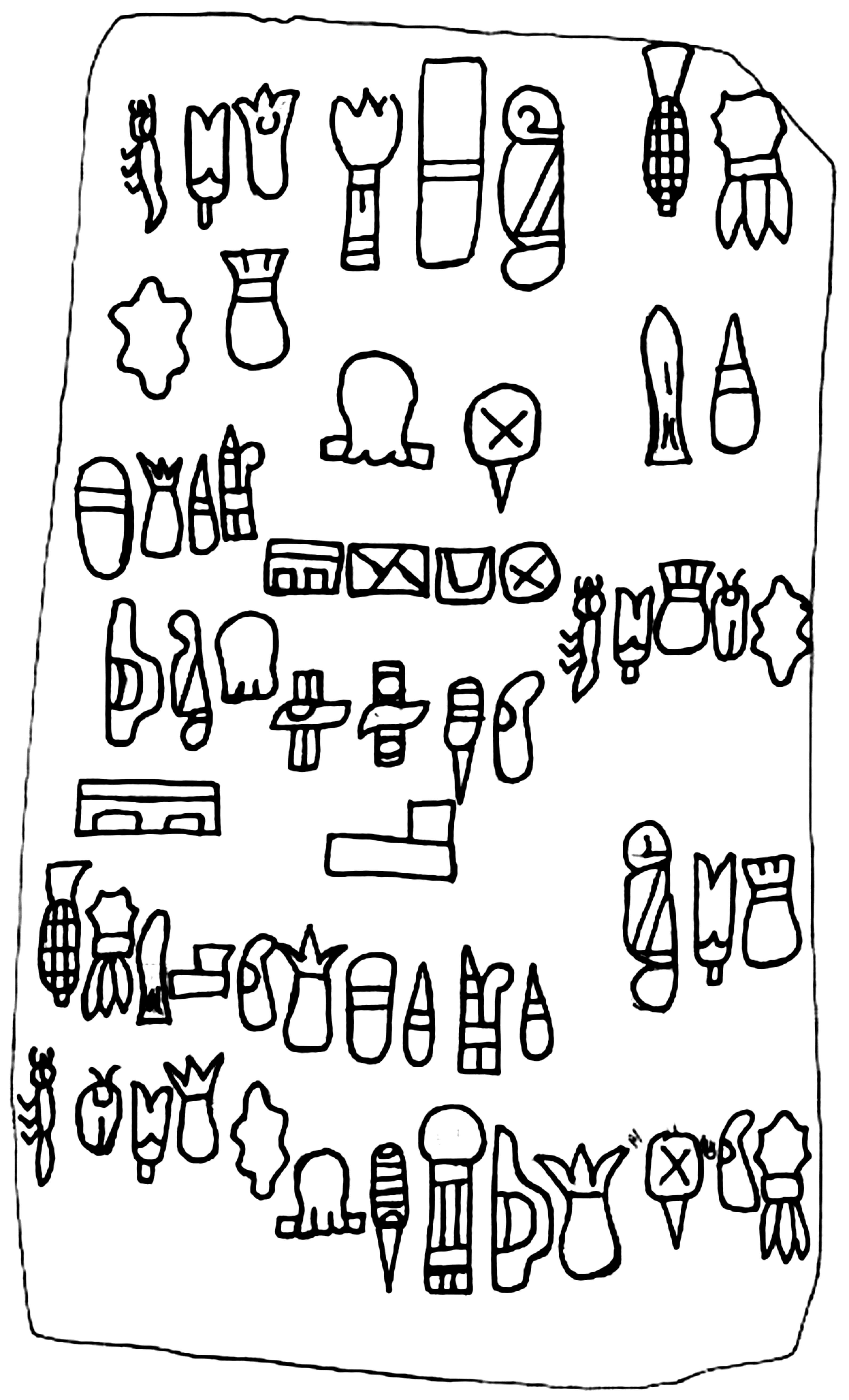 A drawing of the Cascajal block. This high-resolution image was drawn by me, based loosely on a the low-resolution greyscale image published by "Science" and re-published by a number of other news providers, such as the "National Geographic".